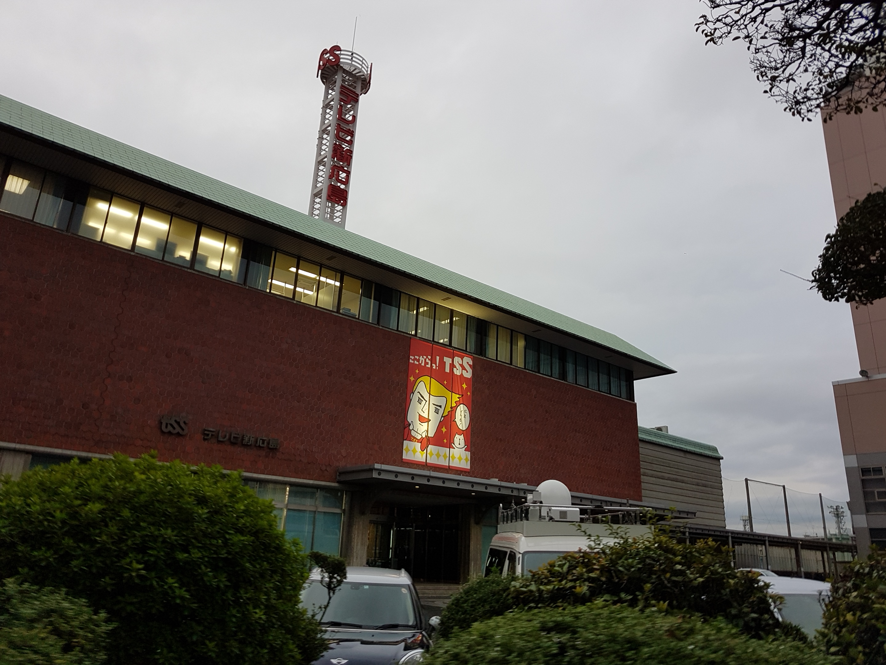 TSS TV Head Office in Hiroshima